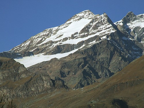 Piramide Vincent (4215 m) seen from Alagna Valsesia Picture taken and edited by user Idefix November 4, 2006